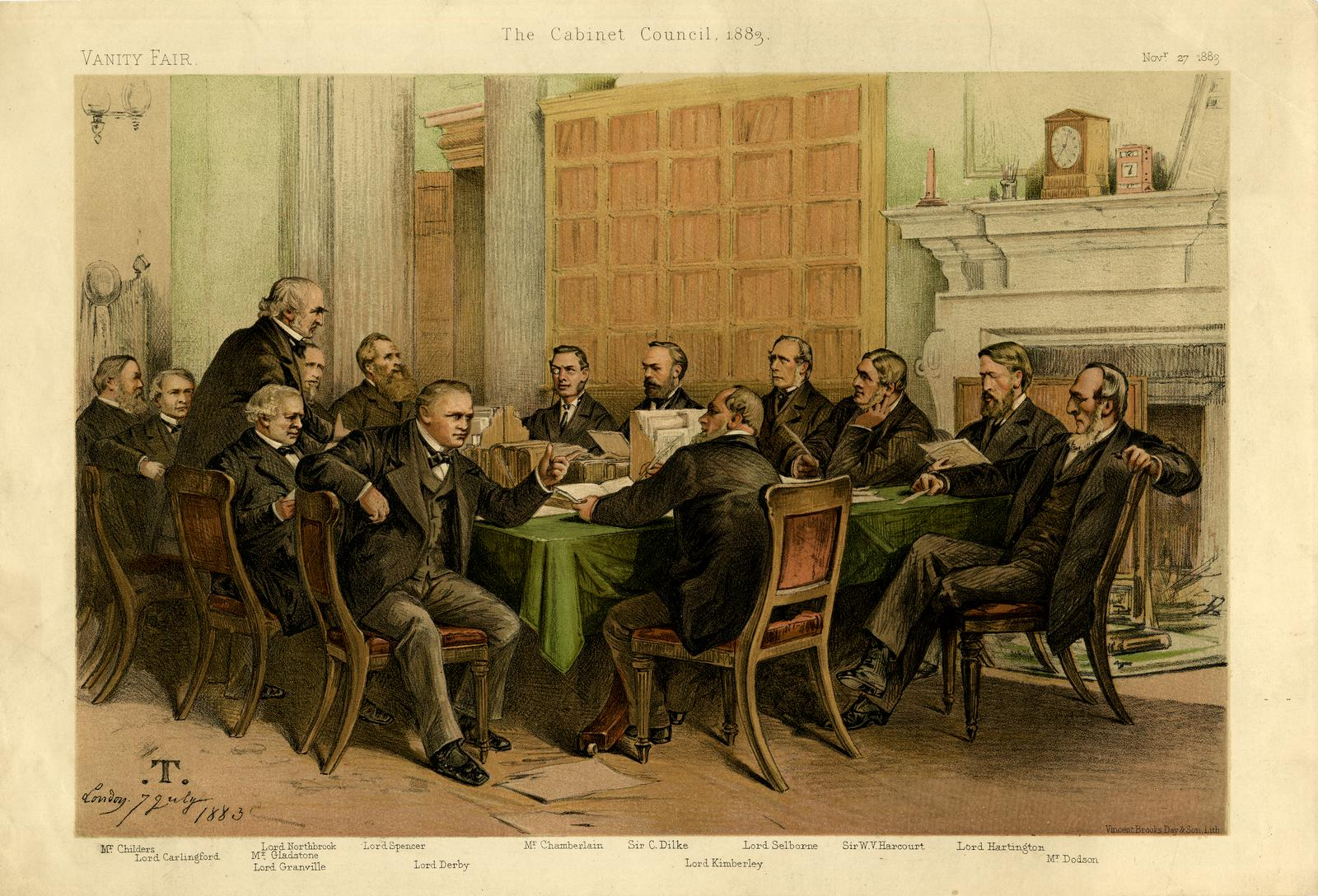 Portraits of fourteen politicians, seated around a table at the meeting of the Cabinet Council on 7 July 1883; fireplace with clock and calendar at right; illustration to 'Vanity Fair', 27 November 1883; after Chartran. 1883 Chromolithograph Depicted: Gladstone, Selborne, Granville, Derby, Spencer, Kimberley, Northbrook, Hartington, Carlingford, Harcourt, Childers, Dodson, Chamberlain, Dilke